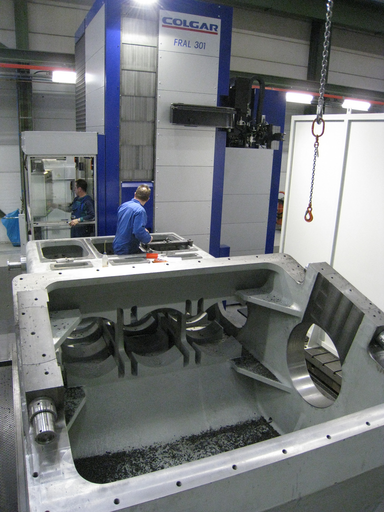 The machining of a large casting (a housing of a large piston diaphragm pump)